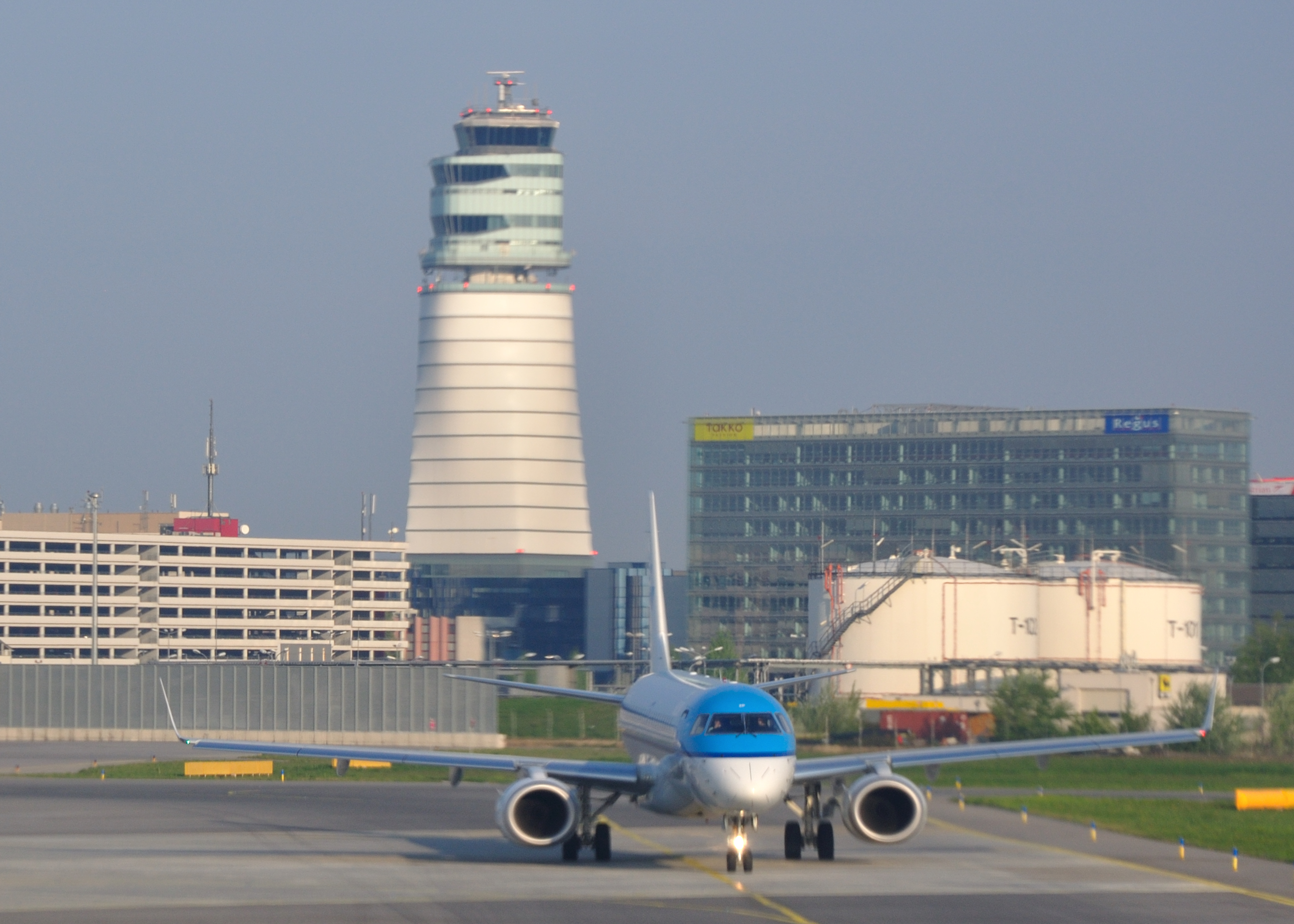 Austria, early morning at Vienna Intl. Airport, KLM cityhopper's Embraer 190 PH-EZF heading for runway 16